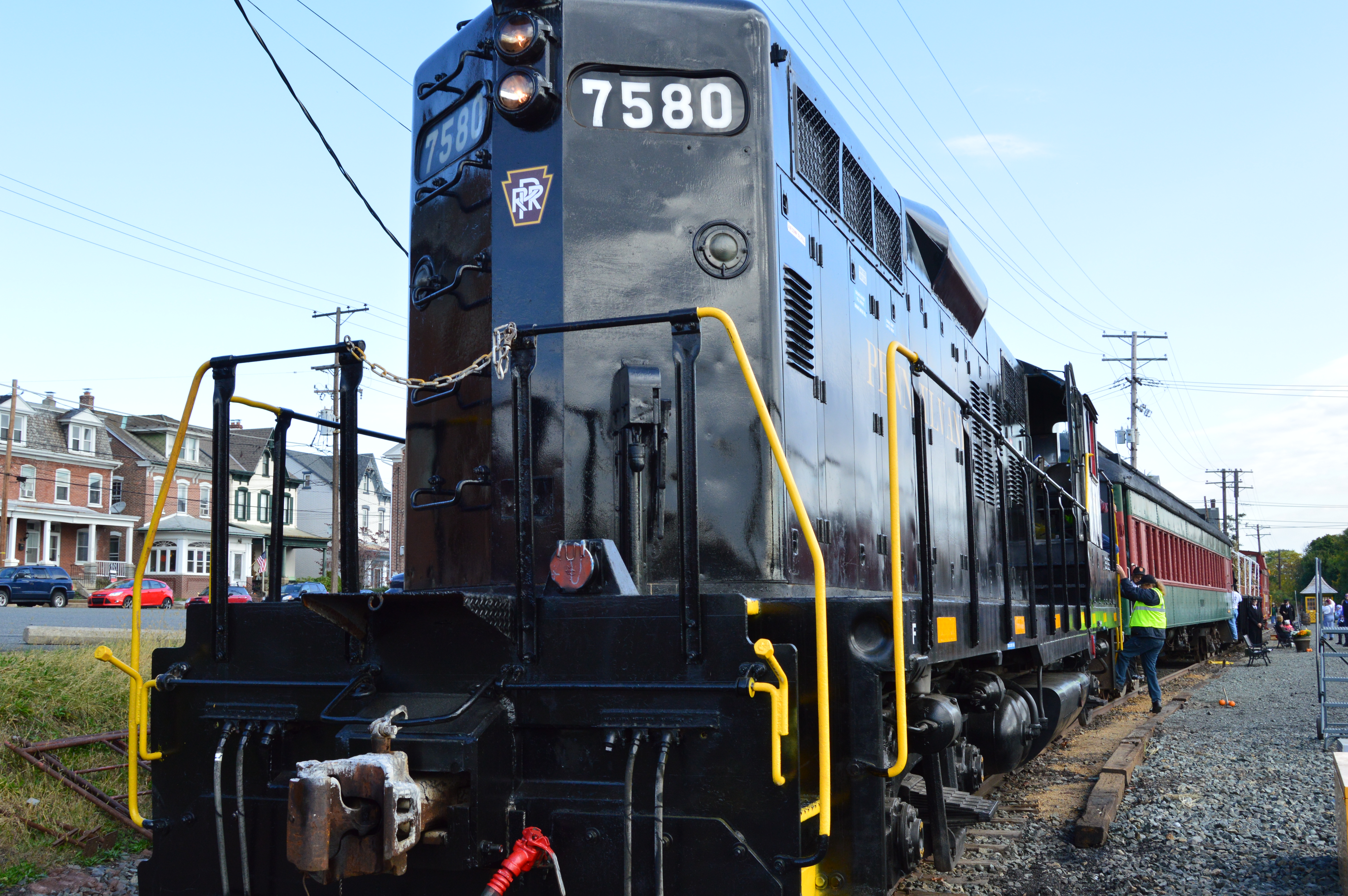 Train getting ready for first official trip to Pottstown from Boyertown on Saturday October 18, 2014